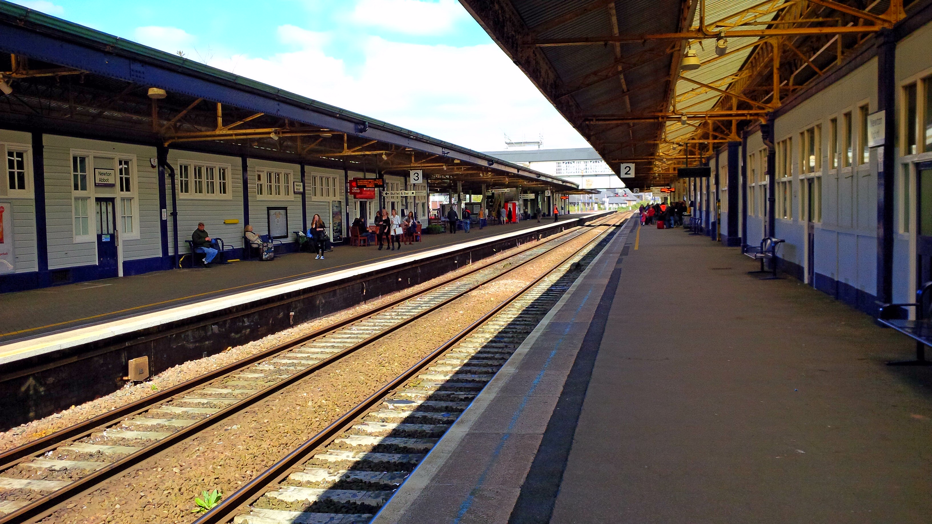 Interior of the Newton Abbot train station (2014).